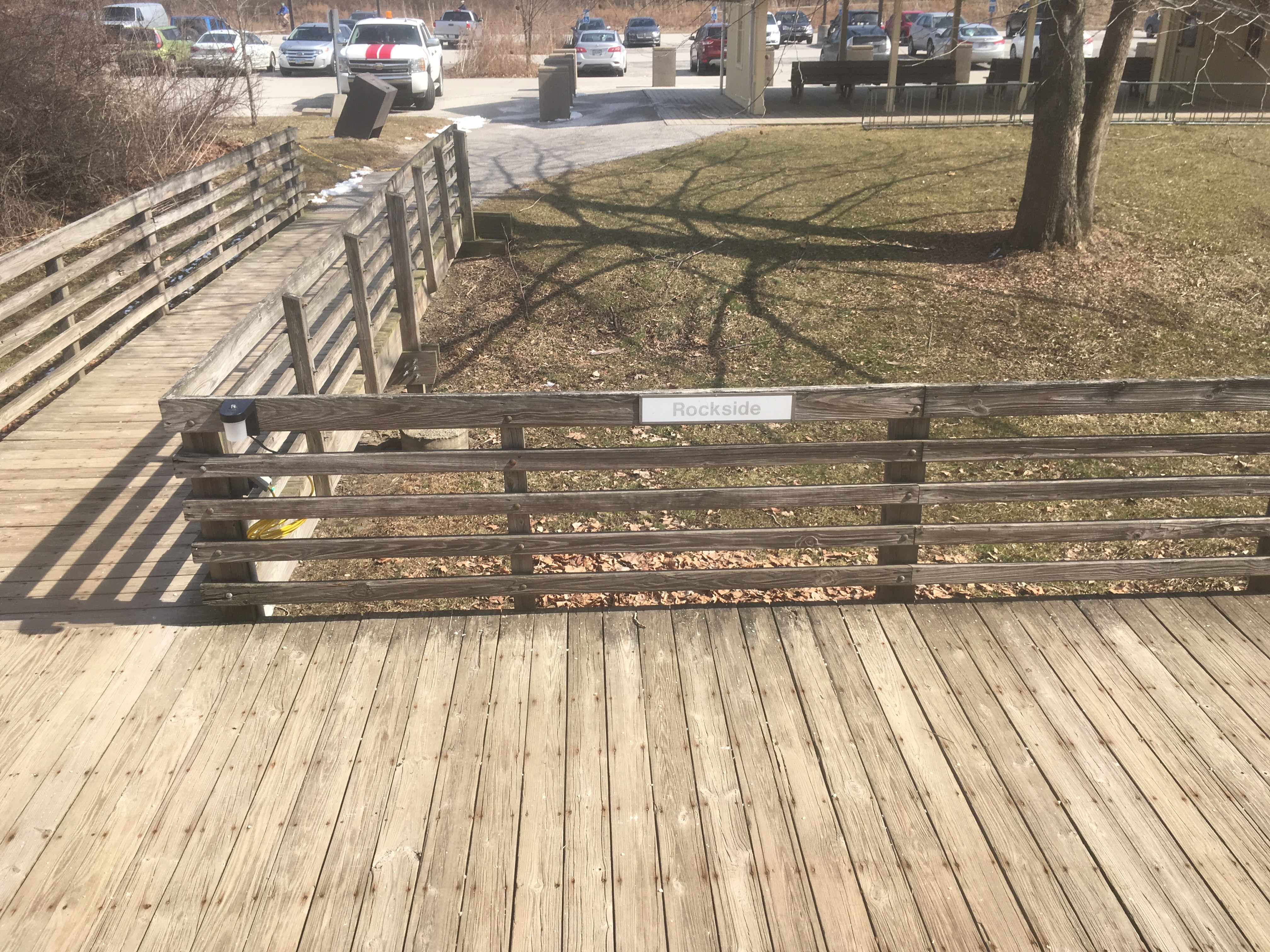 Cuyahoga Valley Scenic Railroad